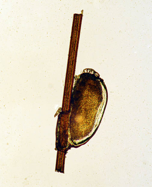 A nit. The egg of Head lice.